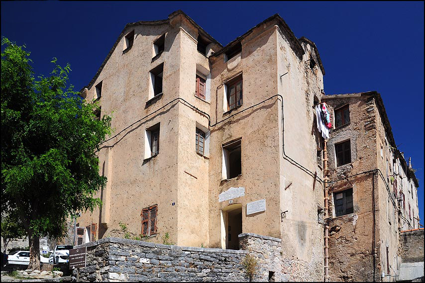 House Arrighi in Corte (Corsica)